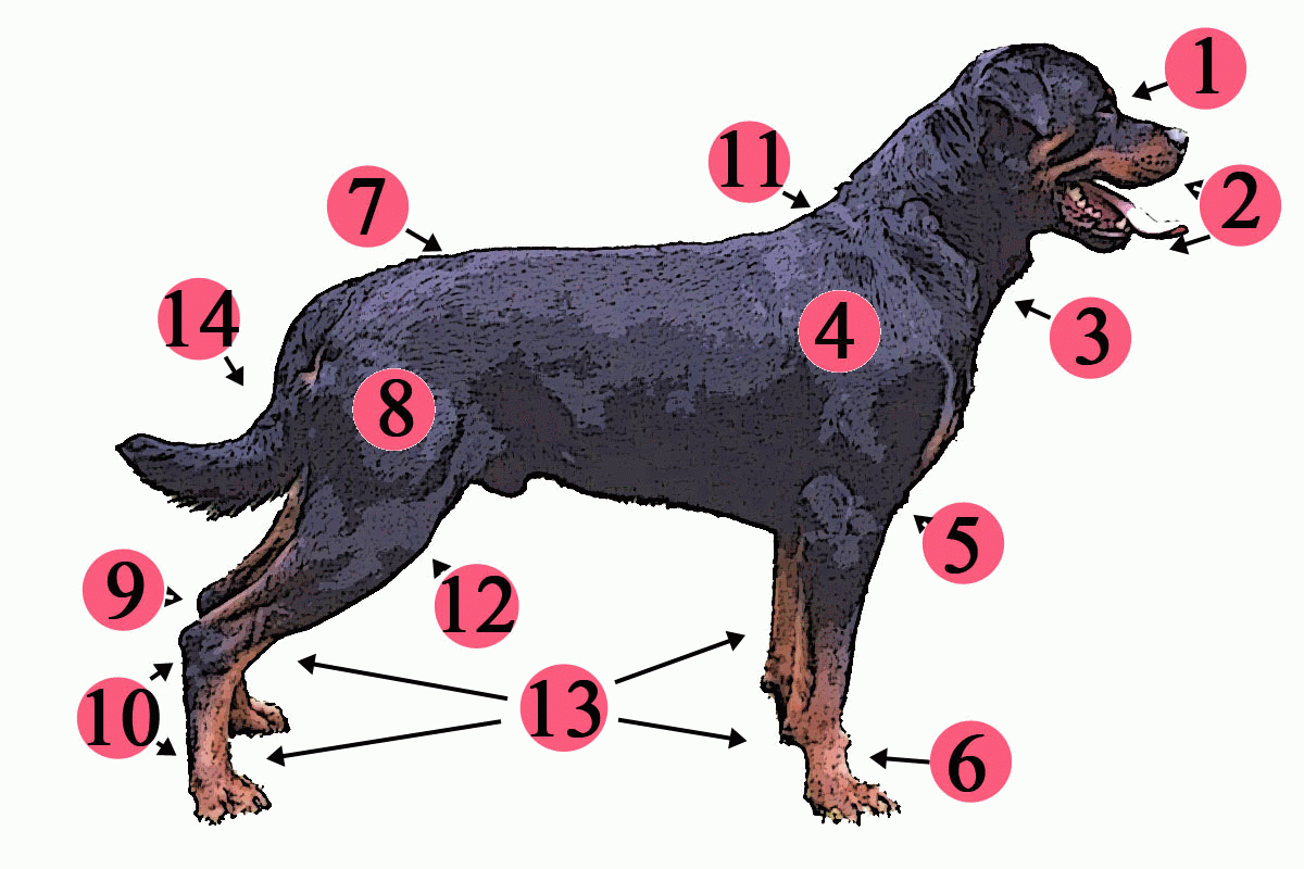 A dog with numbers for specific anatomical structures